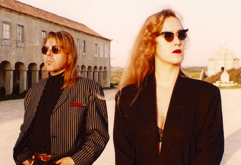 The 2 members of Da Vinci (band) at Cabo Espichel,Portugal, late 90ties